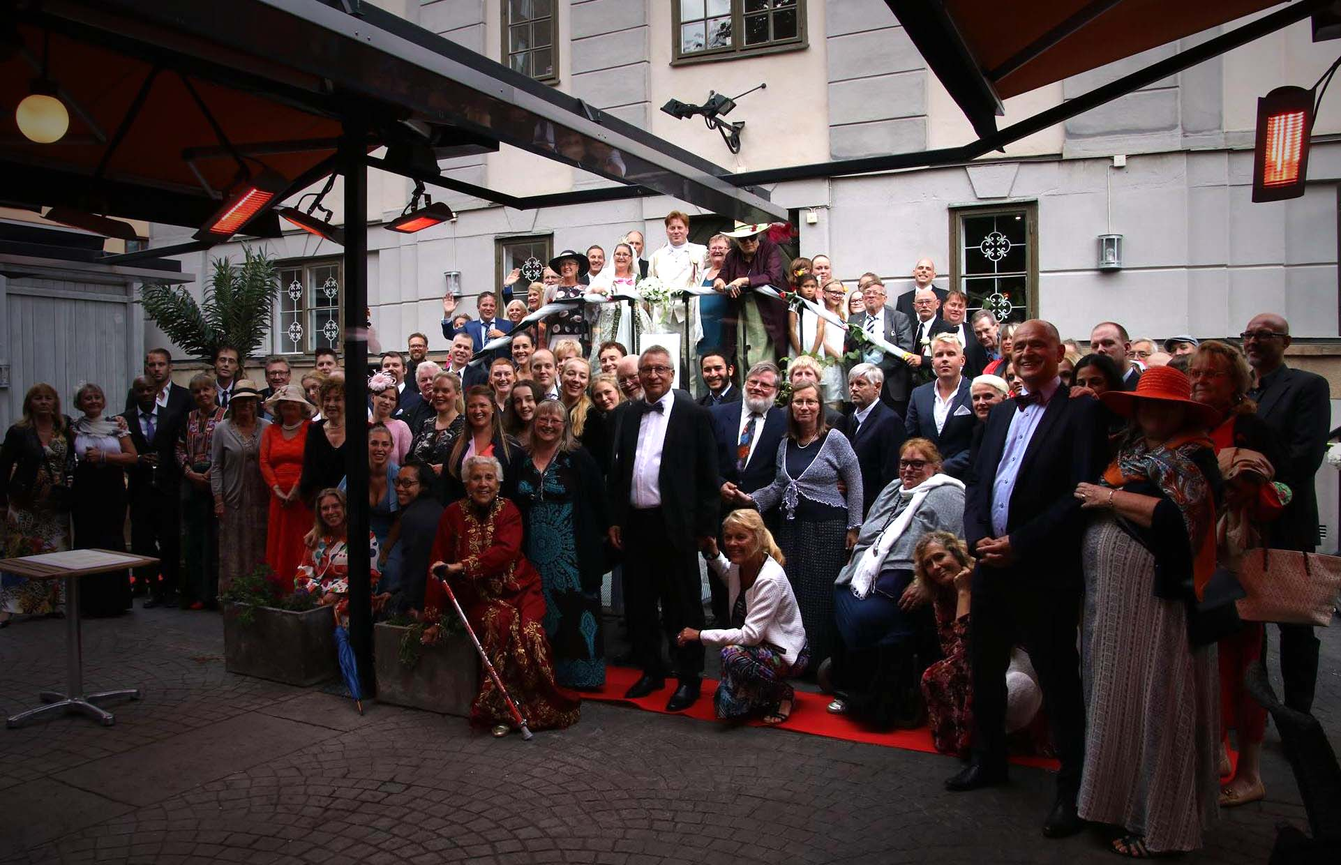 Emil Eikner and wife Elisabet and their wedding guests, including Kjerstin Dellert, Gunvor Pontén, Yaiya Siekas, Lars Jacob, Bibbi Unge, Nils-Åke Häggbom, Anita Prytz & Catharina GnosspeliusPlace: Courtyard of Lillienhoff Palace